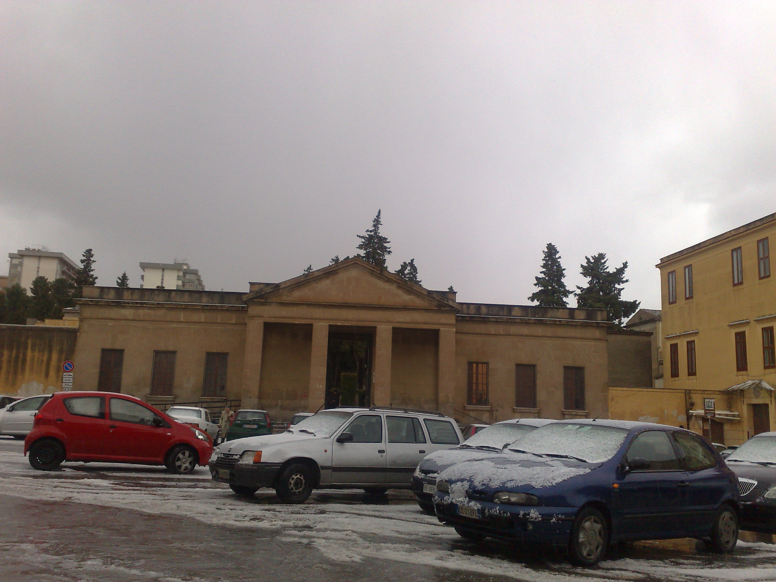 Snow in Palermo: Capuchin catacombs (Palermo)